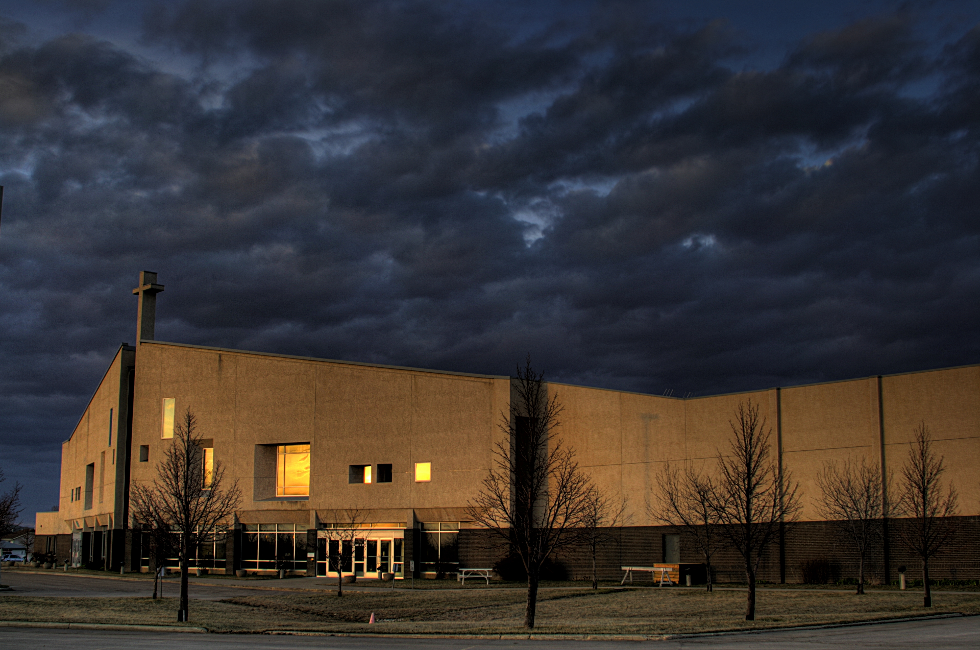 Life Church, Edmonton, Alberta, Canada.